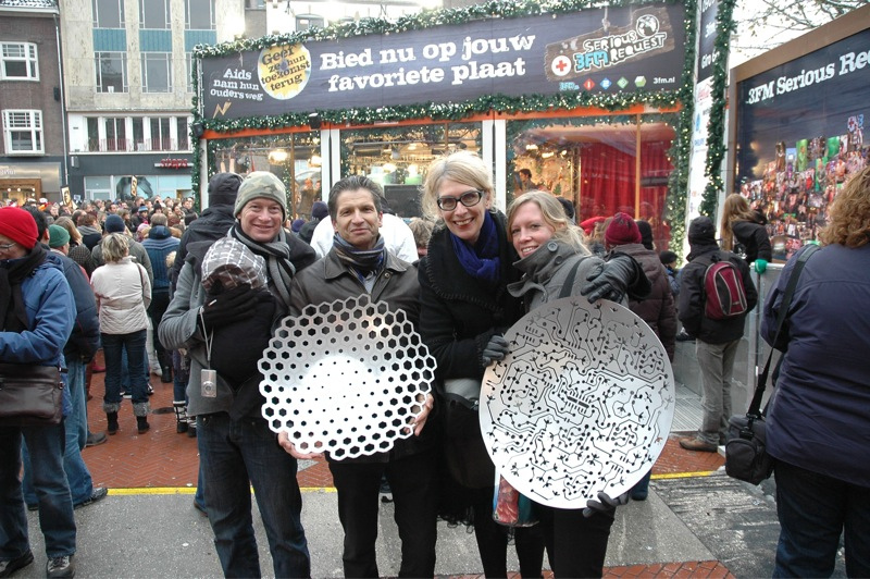 Serious design for serious request